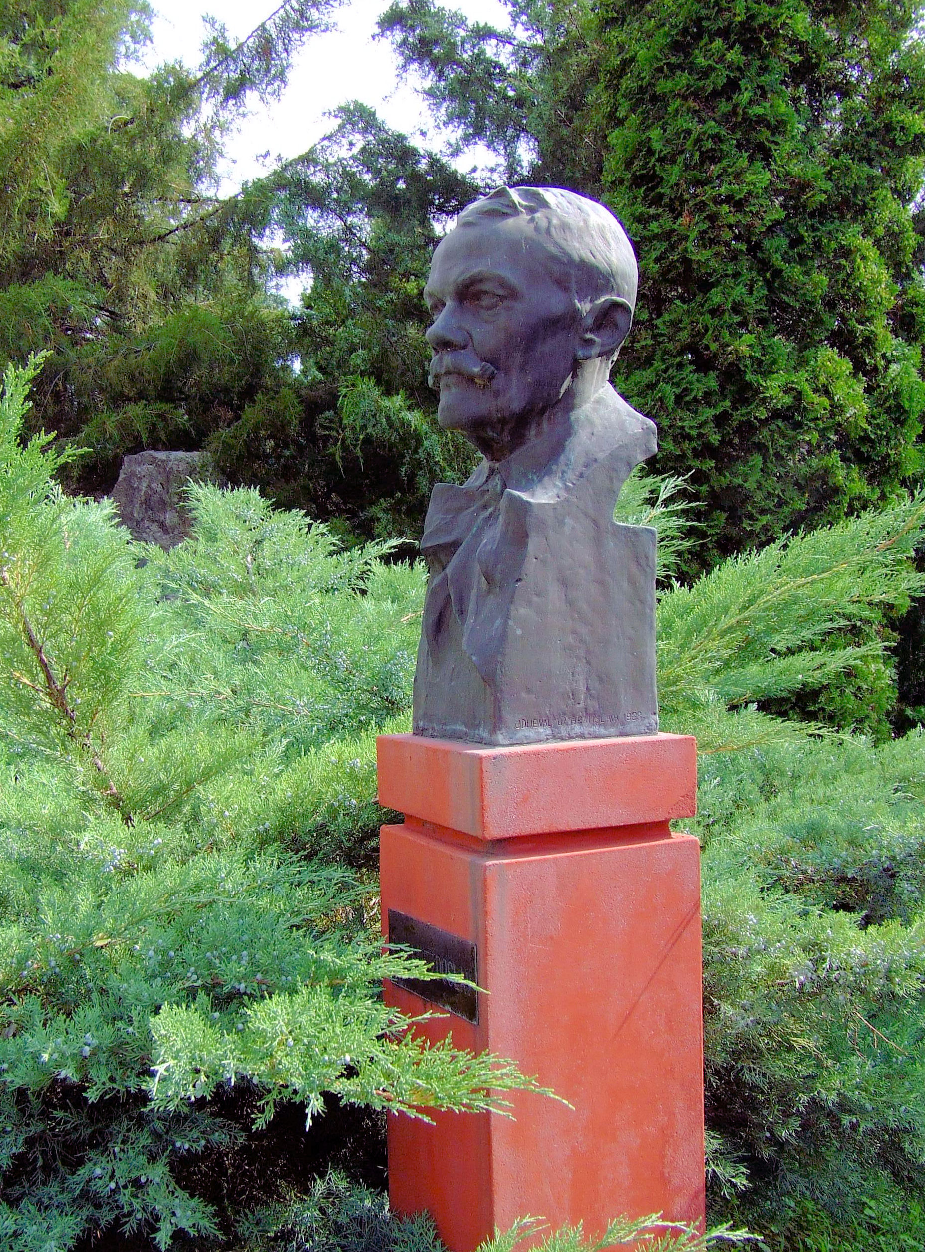 Bust of Slovak poet Pavol Országh Hviezdoslav (1991 bronze) in Kiskőrös Petőfi Sándor Sculpture Park, Hungary